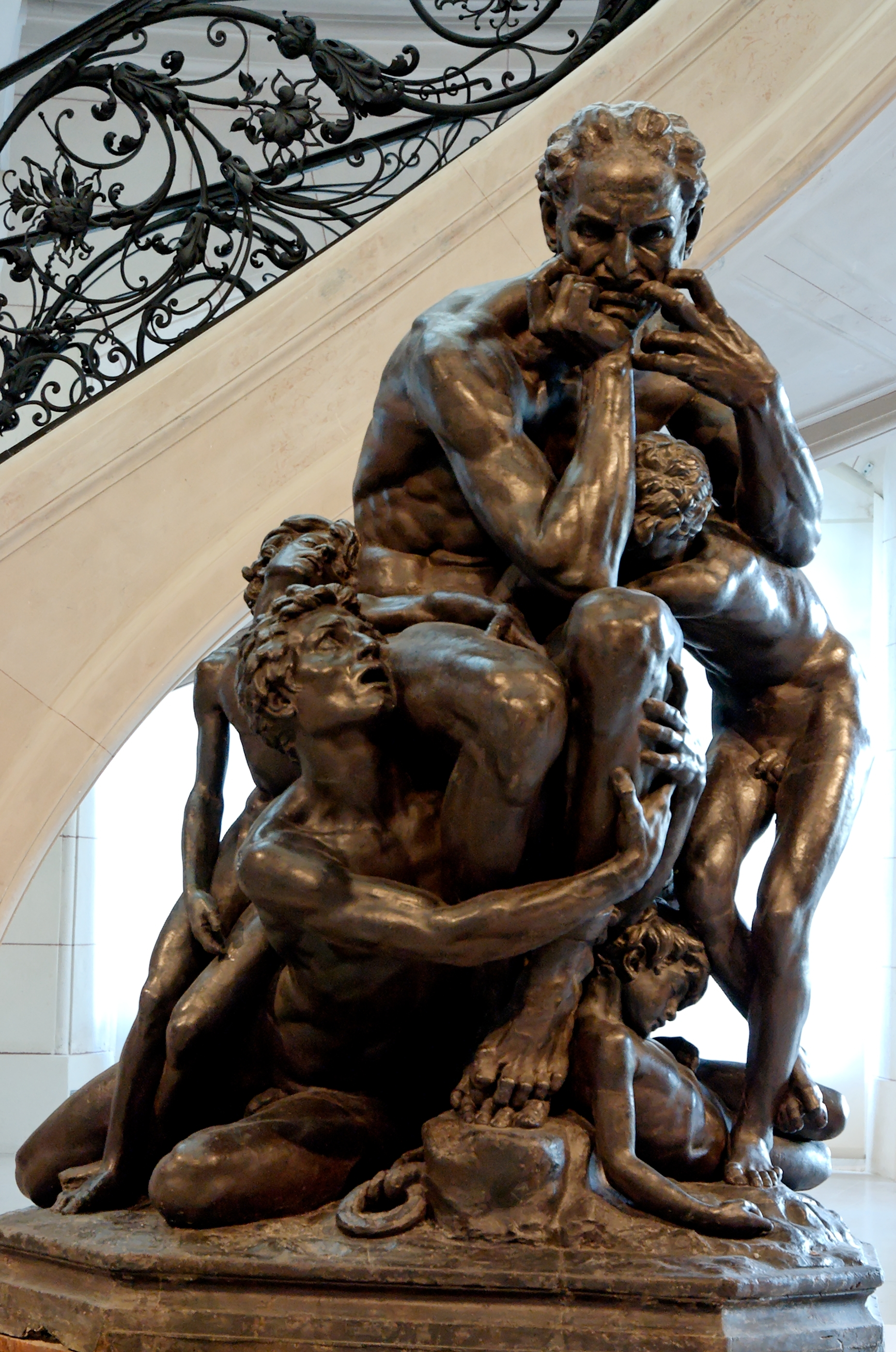 Ugolino. The subject is drawn from Dante's Inferno (canto XXXIII): Ugolino della Gherardesca has been imprisoned for treachery and starves to death, along with his two sons and two grandsons. Before dying, Ugolino's children beg him to eat their bodies.